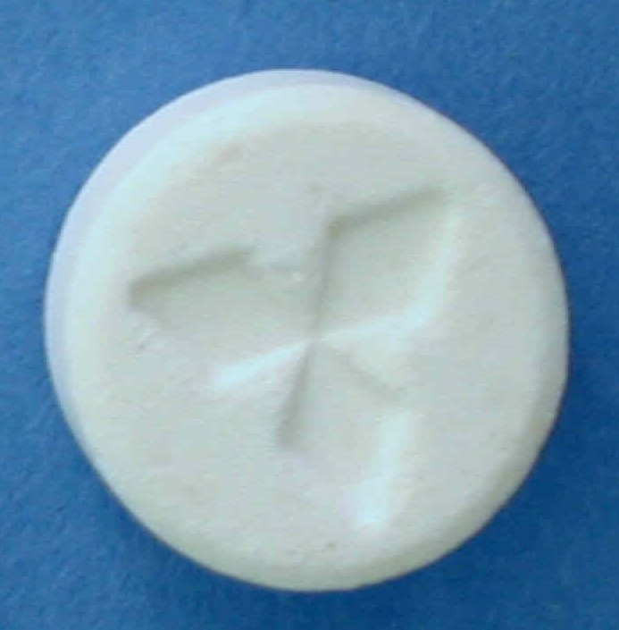 Ecstasy tablets